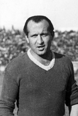 Miguel Andreolo, taken in Italy.